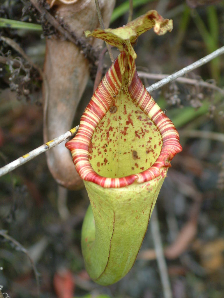 Nepenthes maxima from Sulawesi (700 m altitude)